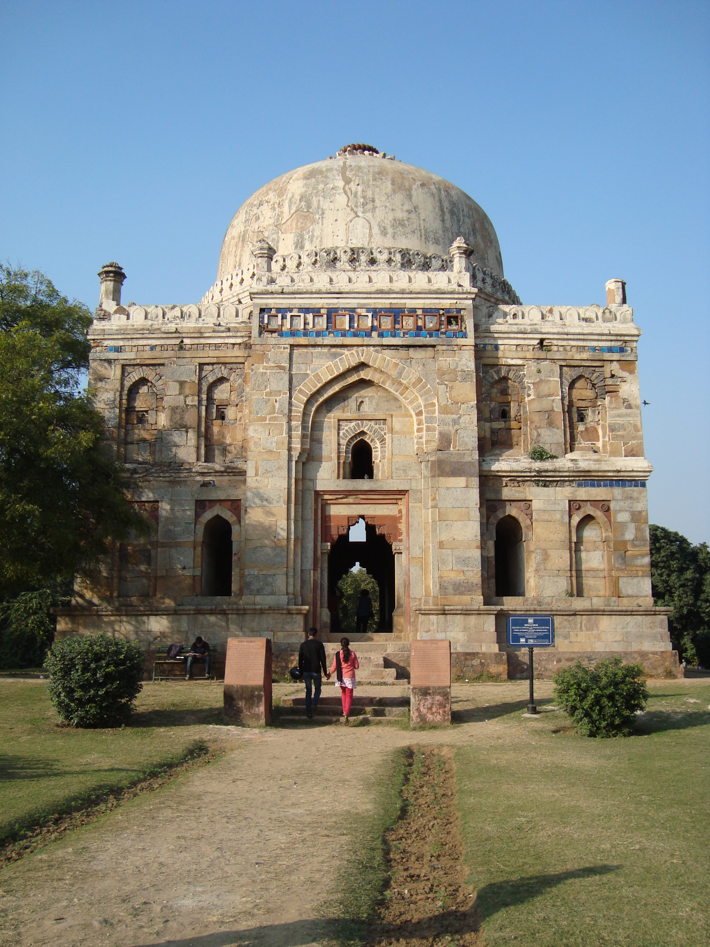 Shish Gumbad at Lodhi Gardens, New Delhi, India.